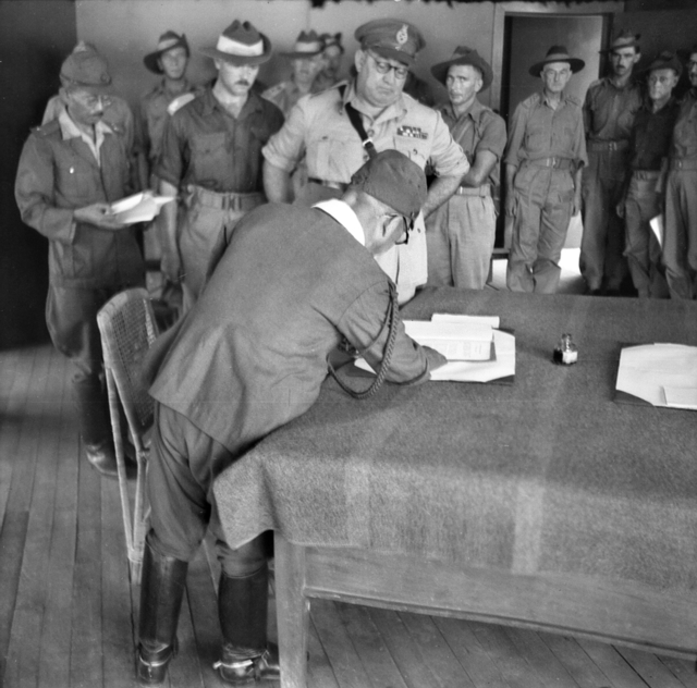 LABUAN ISLAND. 1945-09-10. MAJOR GENERAL (MAJ GEN) G. F. WOOTTEN, GENERAL OFFICER COMMANDING, 9TH DIVISION, ACCEPTED THE SURRENDER OF ALL JAPANESE FORCES FROM LIEUTENANT GENERAL (LT GEN) MASAO BABA, SUPREME COMMANDER JAPANESE FORCES IN BORNEO AND COMMANDER 37 JAPANESE ARMY, IN A SURRENDER CEREMONY HELD AT HEADQUARTERS 9TH DIVISION. SHOWN, LT GEN BABA SIGNING THE INSTRUMENT OF SURRENDER WATCHED BY MAJ GEN WOOTTEN.